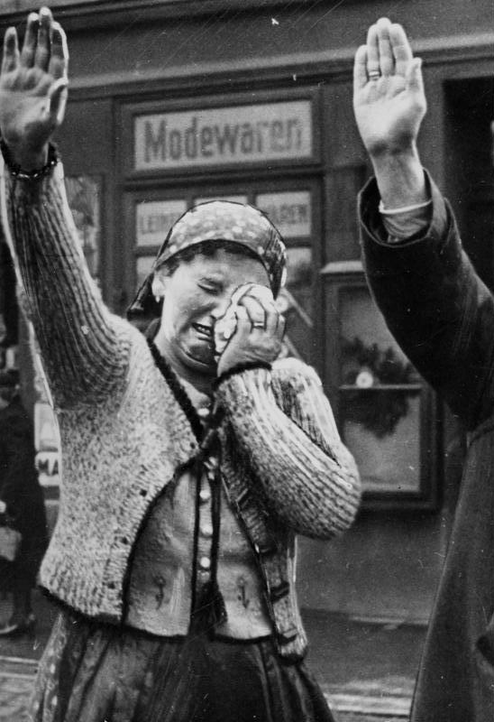 This iconic picture of the Anschluss of the Sudetenland has been captioned and interpreted differently, depending on who published it. The Nazis, who first published it in autumn 1938 shortly after the Anschluss in their newspaper Völkischer Beobachter, claimed the woman cried tears of joy. See for instance this history of the Sudetenland, which seems to use such a caption: A Sudeten woman, overcome with emotion, pays homage as the Wehrmacht enters the Sudeten border town of Cheb. Also see the letter Lieutenant Earle A. Cleveland wrote to the Time Magazine (printed November 12, 1945). He wrote: The Nazi explanation was that here were portrayed the intense emotions of joy which swept the Sudeten Germans as Hitler crossed the Czech border at Asch and drove through the streets of the nearby ancient city of Eger, 99% of whose inhabitants were ardently pro-Nazi Sudeten Germans at the time... to which the Time editors commented ...sauce for the Nazi goose is sometimes sauce for Allied propaganda. The U.S. National Archives and Records Administration (NARA) provides this image (as #78) with the caption The tragedy of this Sudeten woman, unable to conceal her misery as she dutifully salutes the triumphant Hitler, is the tragedy of the silent millions who have been 'won over' to Hitlerism by the 'everlasting use' of ruthless force. which is similar in spirit to the ADN/Zentralbild (a GDR news agency) German caption preserved by the German Federal Archive. Translation: With her arm raised to the Hitler salute, this woman stood at the roadside when the troops of fascist Germany entered this town [Cheb] after the Munich Agreement (Sep. 29/30, 1938). The salute was not convincing; it was forced. She expresses it in her tears. Tears of misery, of deprivation, of human suffering. What has she gone through because of the fascists; what will she experience after this day?